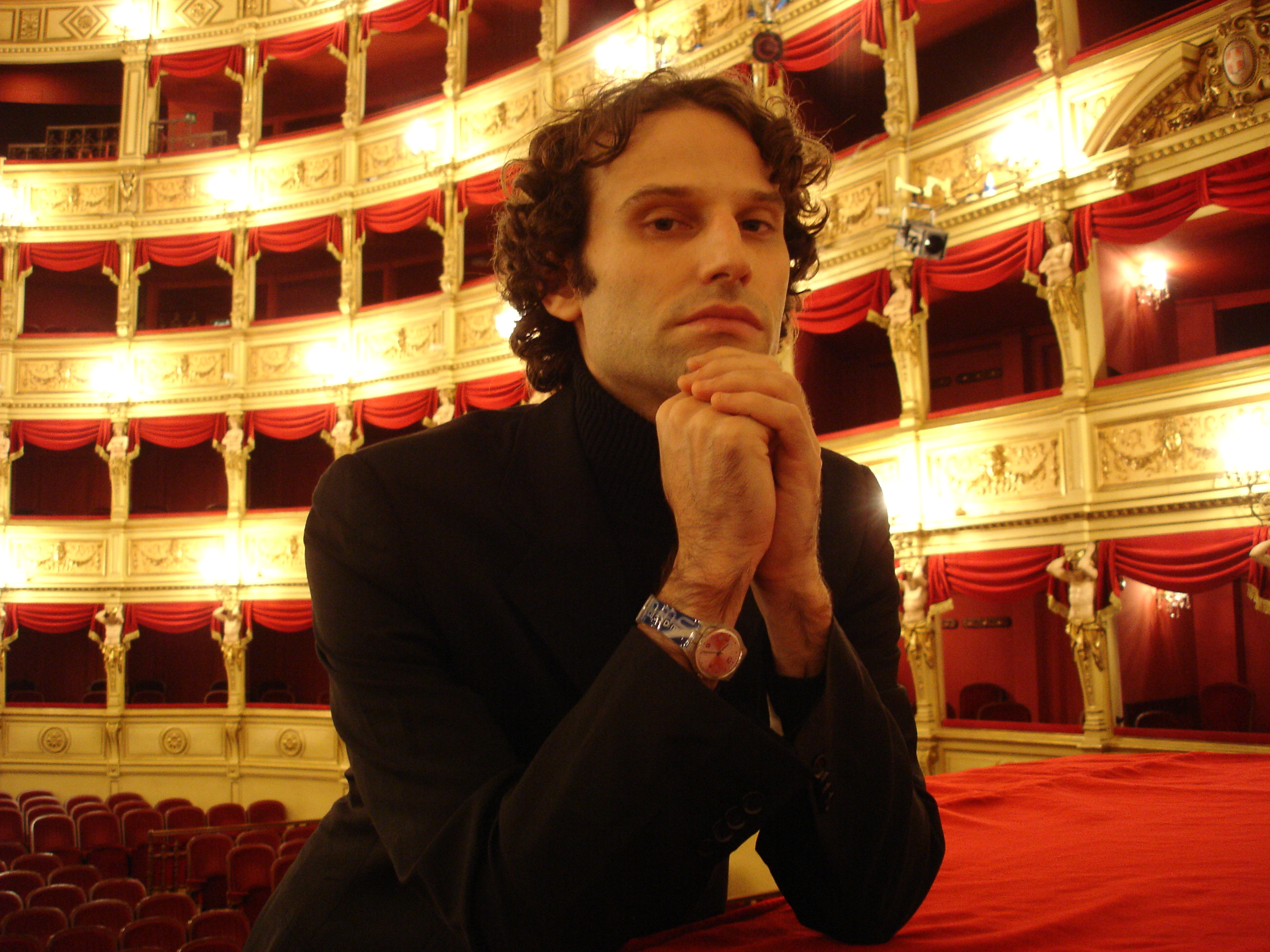 david greilsammer